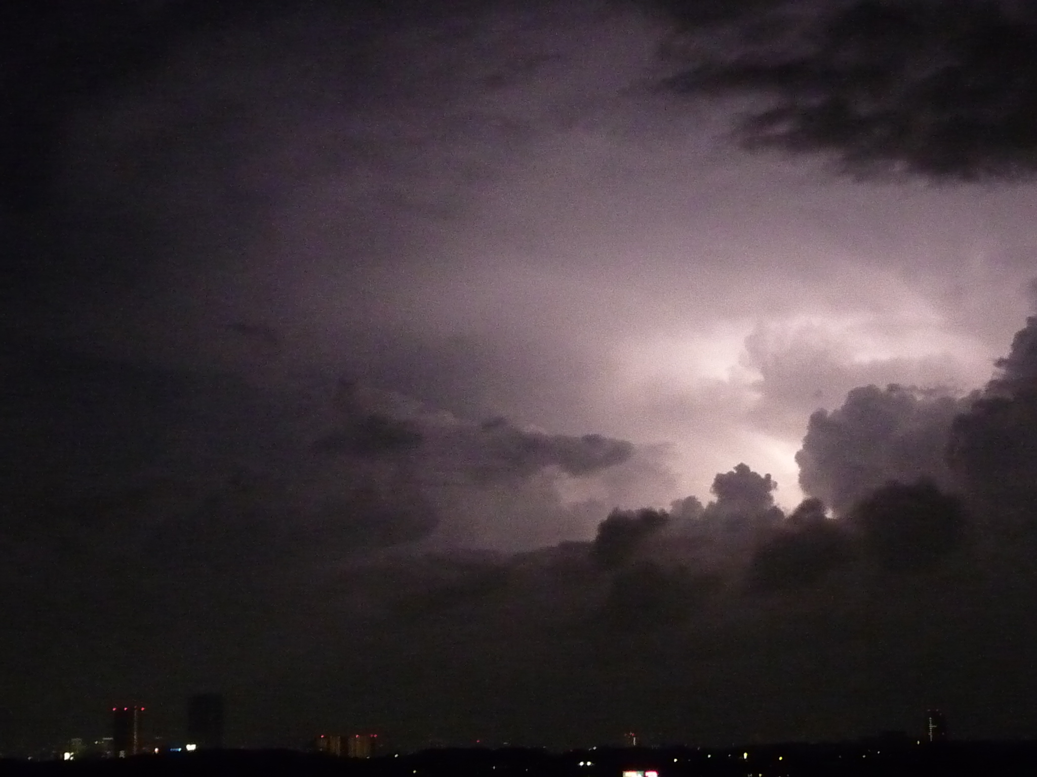 Lightning over Tokyo, 2008 Aug., 28, 22:48